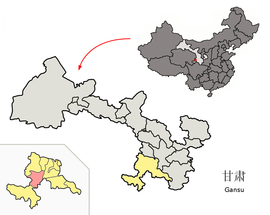 Location of Luqu County (pink) and Gannan Prefecture (yellow) within Gansu province of China Map drawn in september 2007 using various sources, mainly : Gansu province administrative regions GIS data: 1:1M, County level, 1990 Gansu Counties map from